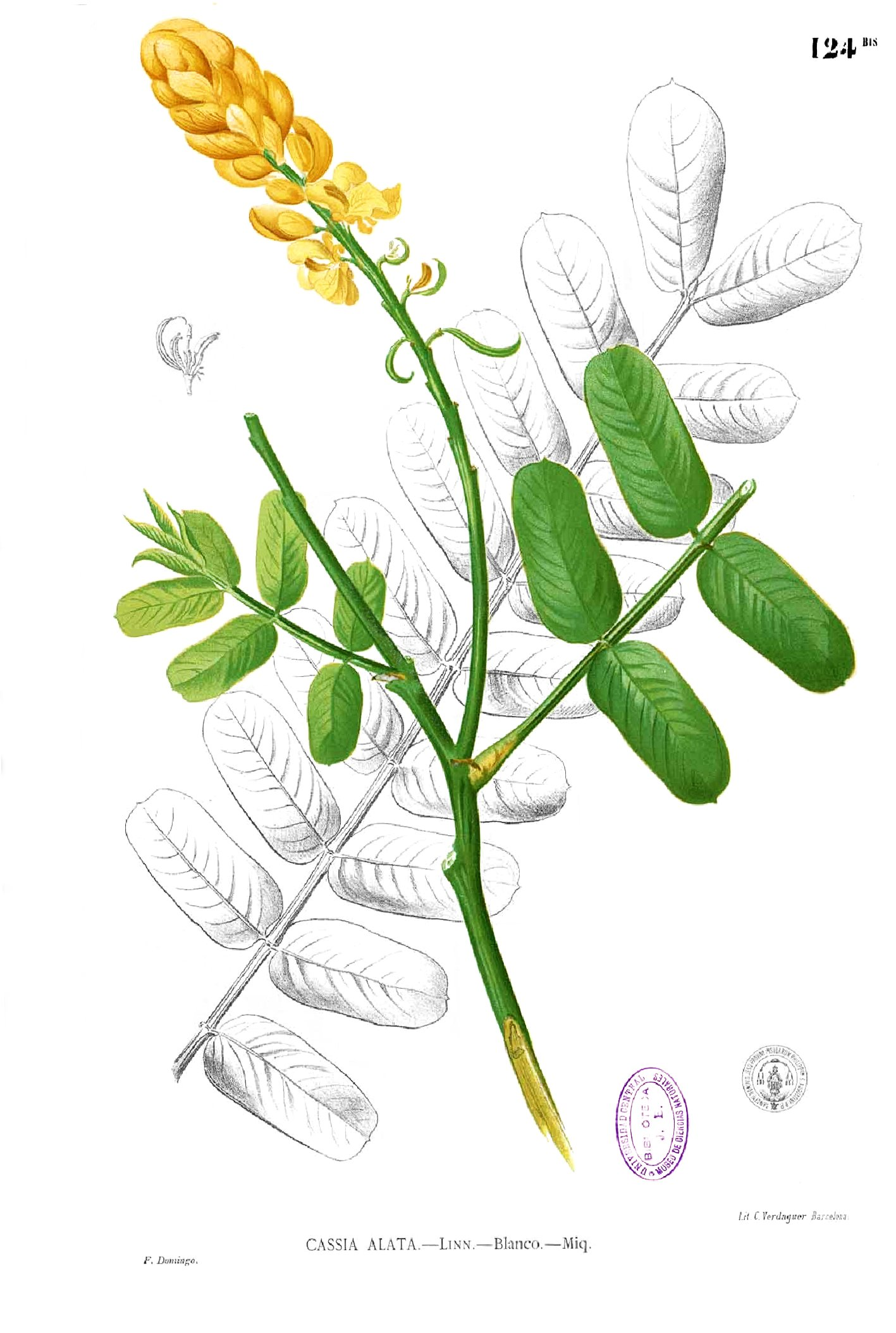 Plate from book